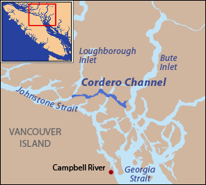 This is a locator map of Cordero Channel. I, Pfly, made it with ArcGIS, Adobe Illustrator, and Adobe Photoshop. The coastline data is from the Digital Chart of the World.